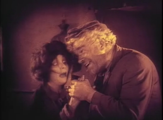 Scenography for the movie Greed (1924); ZaSu Pitts and Gibson Gowland.